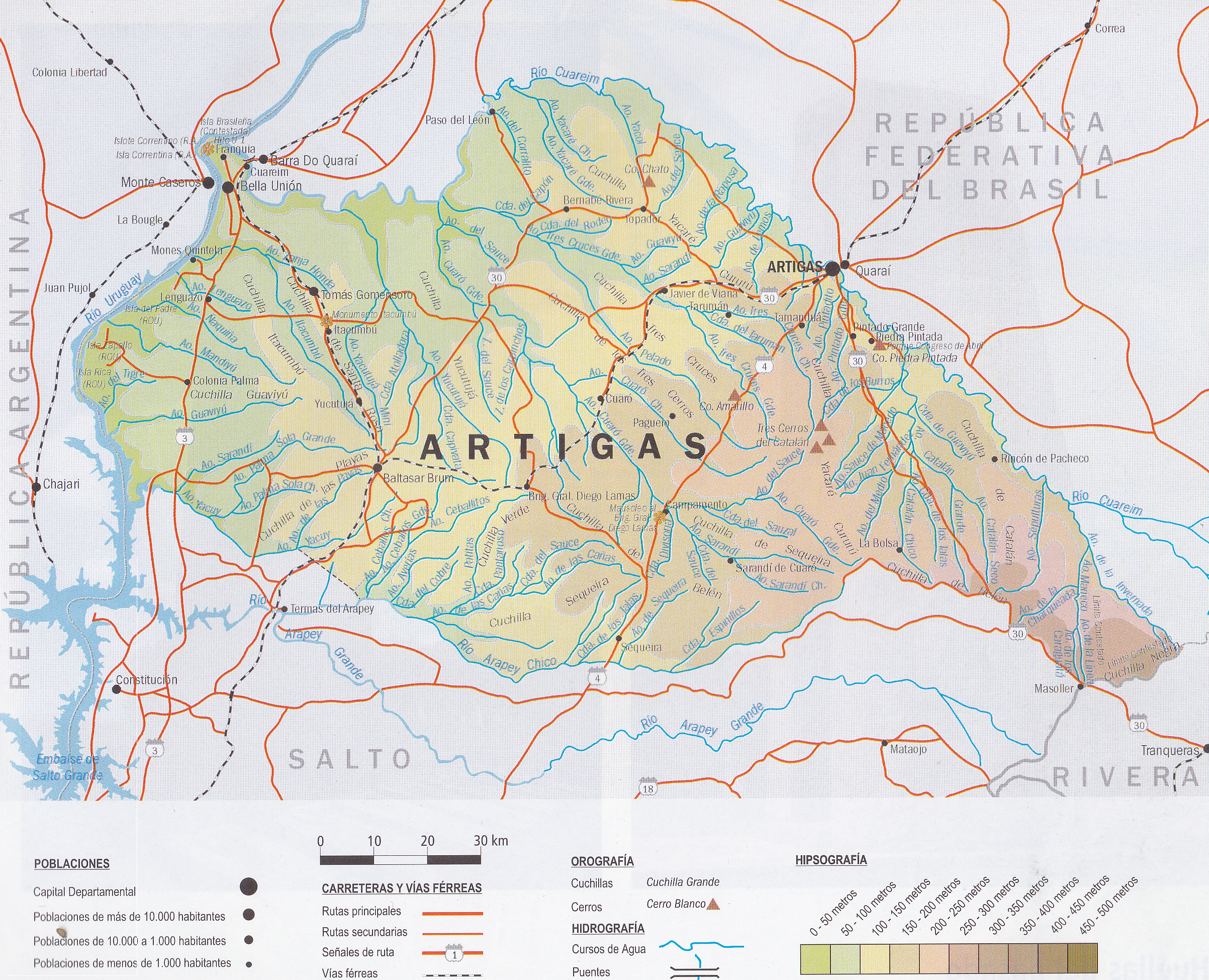 Mapa de Artigas